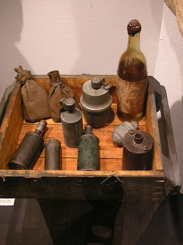 Made during a summer day in Warsaw's Museum of the Polish Army; Various types of Sidolówka grenades, along with a single Molotov cocktail (note that the name used here is an anachronism) and two hand-made satchel charges; all of these were made prior to or during the Warsaw Uprising